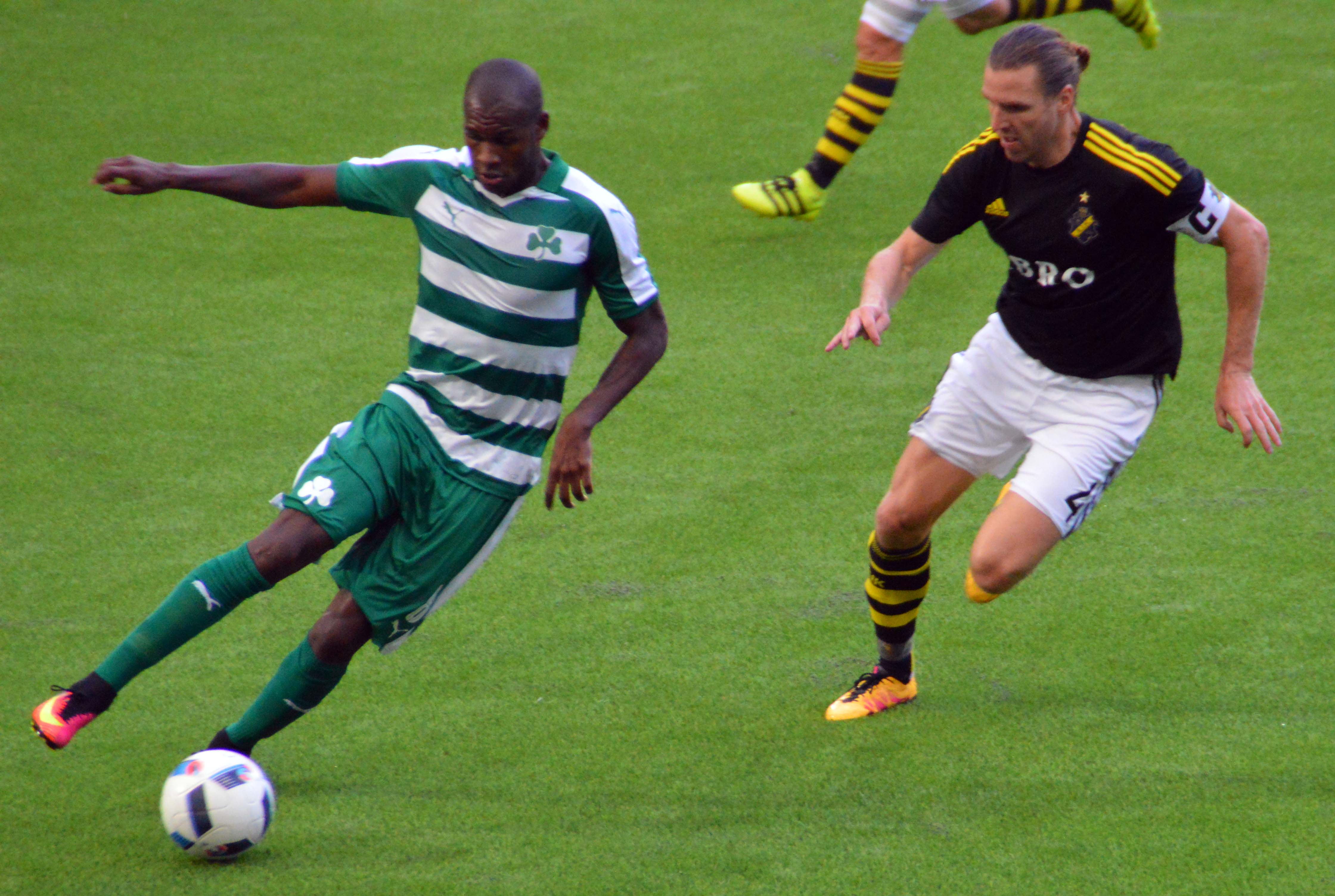 Víctor Ibarbo (panathinaikos) being challanged by Nils-Eric Johansson (AIK) during a Europa League Qualifier at Tele2 Arena in Stockholm, Sweden